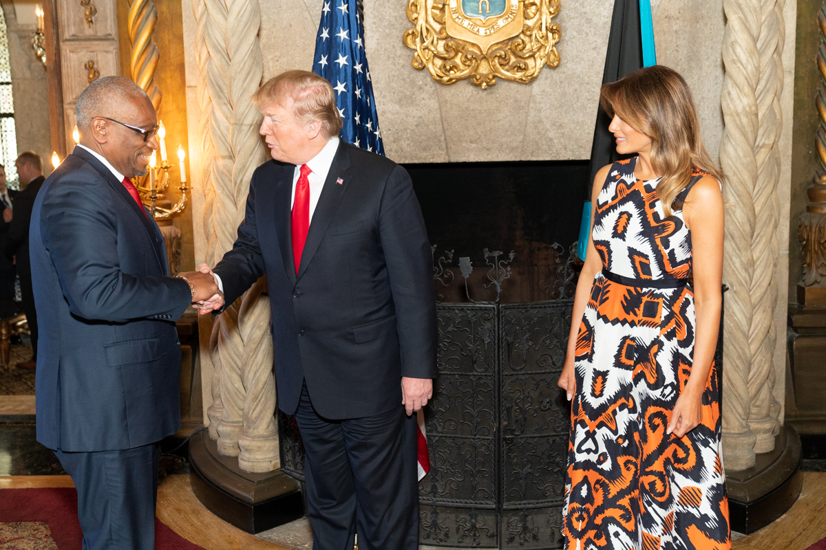 President Donald J. Trump welcomes Prime Minister Hubert Minnis of the Commonwealth of the Bahamas Friday, March 22, 2019, to a meeting of Caribbean leaders at Mar-a-Lago in Palm Beach, Fla. (Official White House Photo by Shealah Craighead)